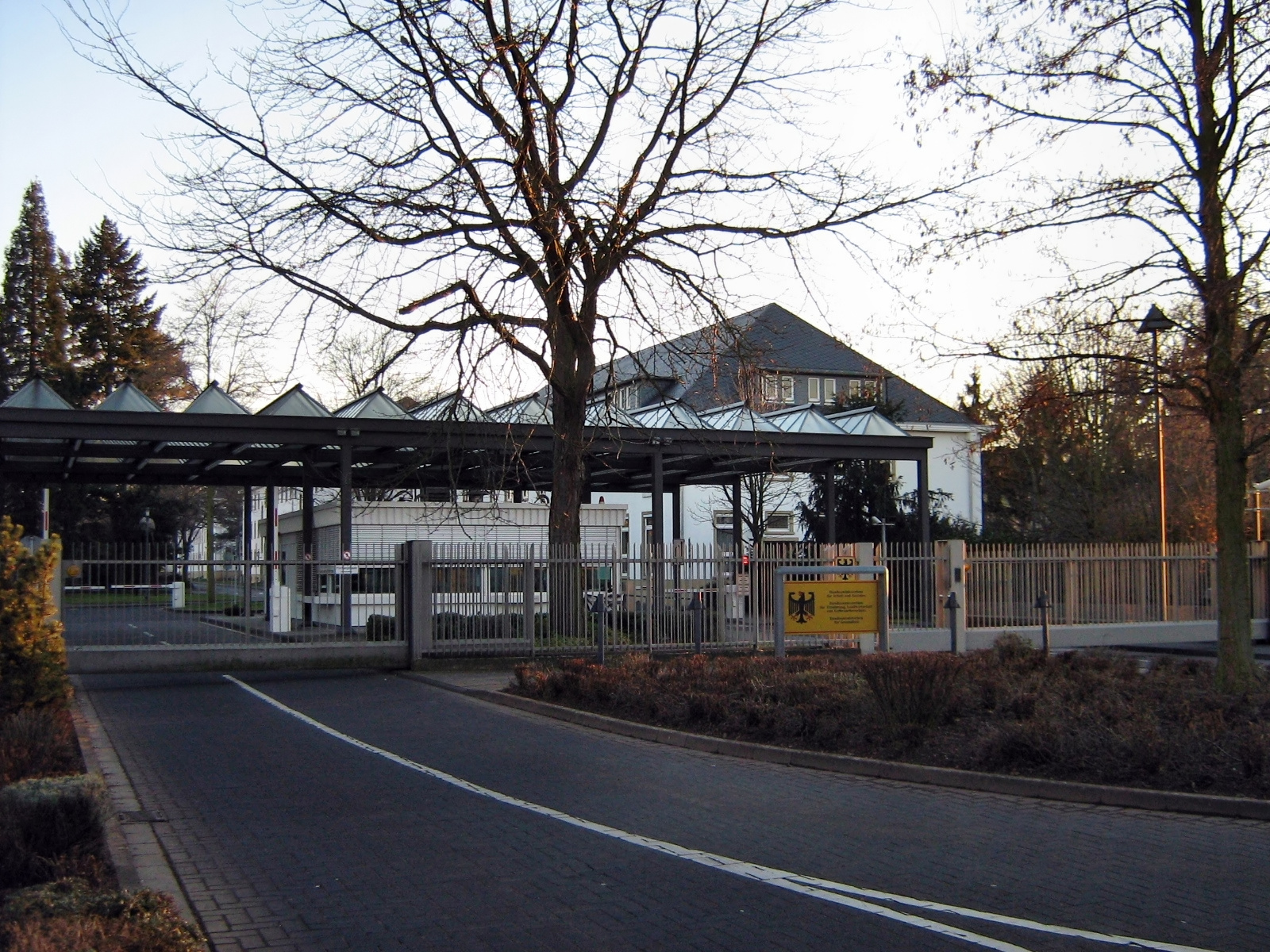 Entrance to various Federal Ministries in Bonn, Rochusstrasse 1: Federal Ministry of Labour and Social Affairs, Federal Ministry of Food, Agriculture and Consumer Protection and Federal Ministry of Health